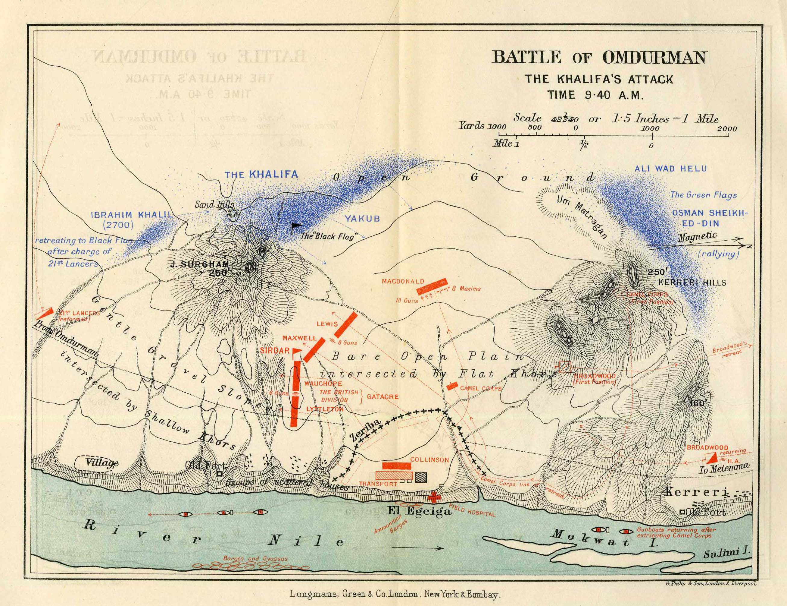 The Battle of Omdurman The Khalifas Attack 2nd September, 9:40 am